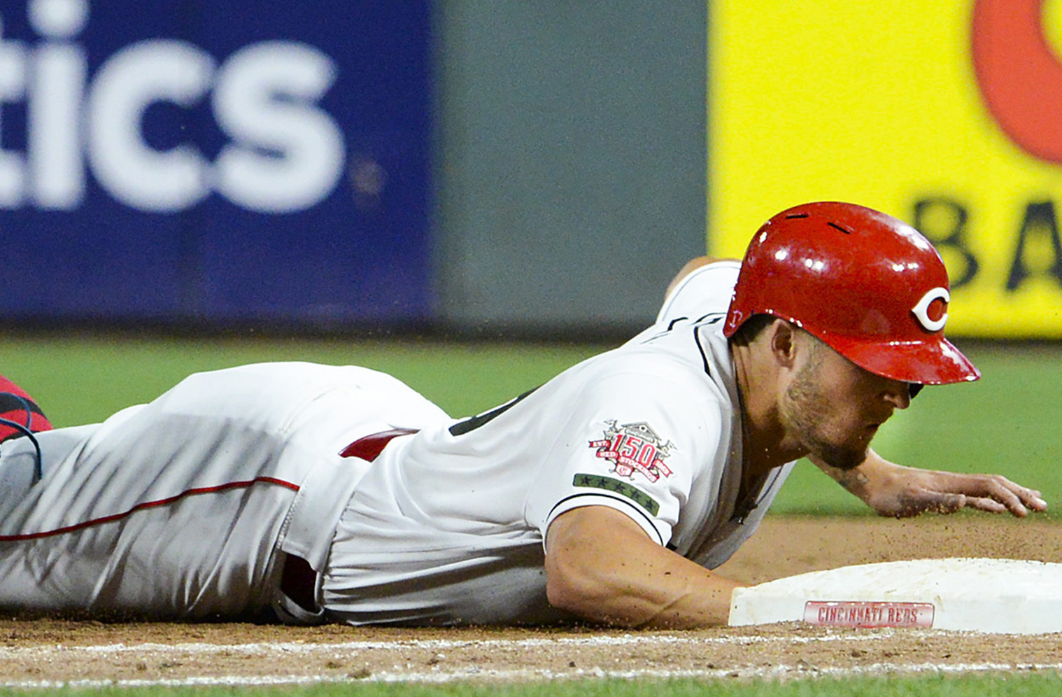 Cincinnati Reds center fielder Nick Senzel beats a pick-off attempt back to first base Aug. 9, 2019, during a game against the Chicago Cubs at Great American Ball Park, Cincinnati. The Reds went on to win the game 5-2 on the Reds’ military appreciation night which included Wright-Patterson Air Force Base Airmen performing the national anthem, throwing out the first pitch and acting as the team’s honorary team caption. (U.S. Air Force photo by R.J. Oriez)